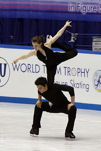 2009 ISU World Team Trophy in Figure Skating - Tessa Virtue and Scott Moir